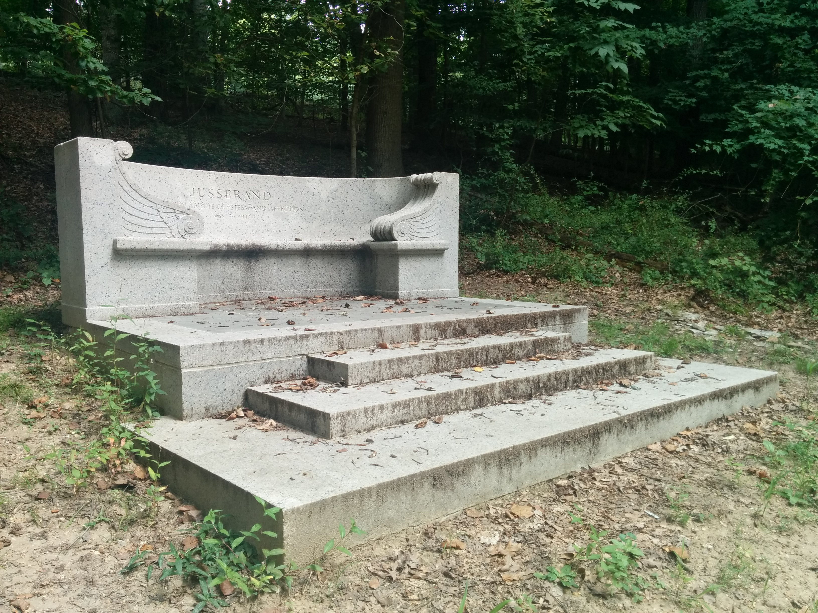 Monument to French Ambassador to the United States Jean Jules Jusserand in Rock Creek Park, Washington D.C.